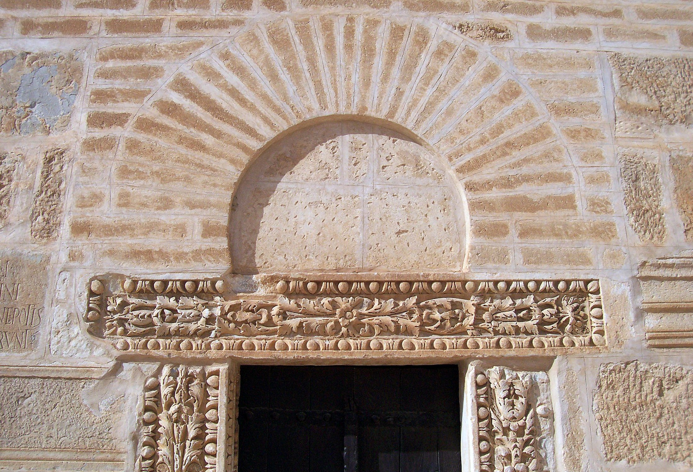 The Great Mosque of Kairouan, founded originally in the late 7th century, is the most important mosque in Tunisia and is regarded as the fourth holiest Islamic site, after Mecca, Medina and Jerusalem. This photograph shows the lintel and the discharging arch of the door of the minaret.